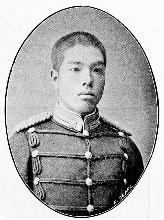 Lieutenant Inagaki